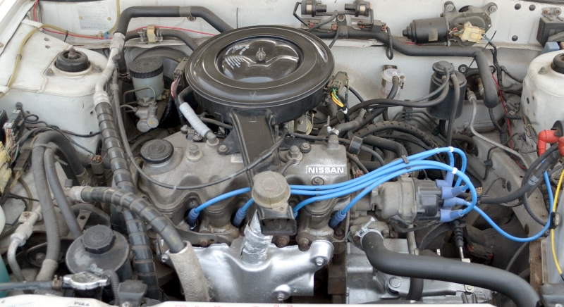 Nissan E15S engine